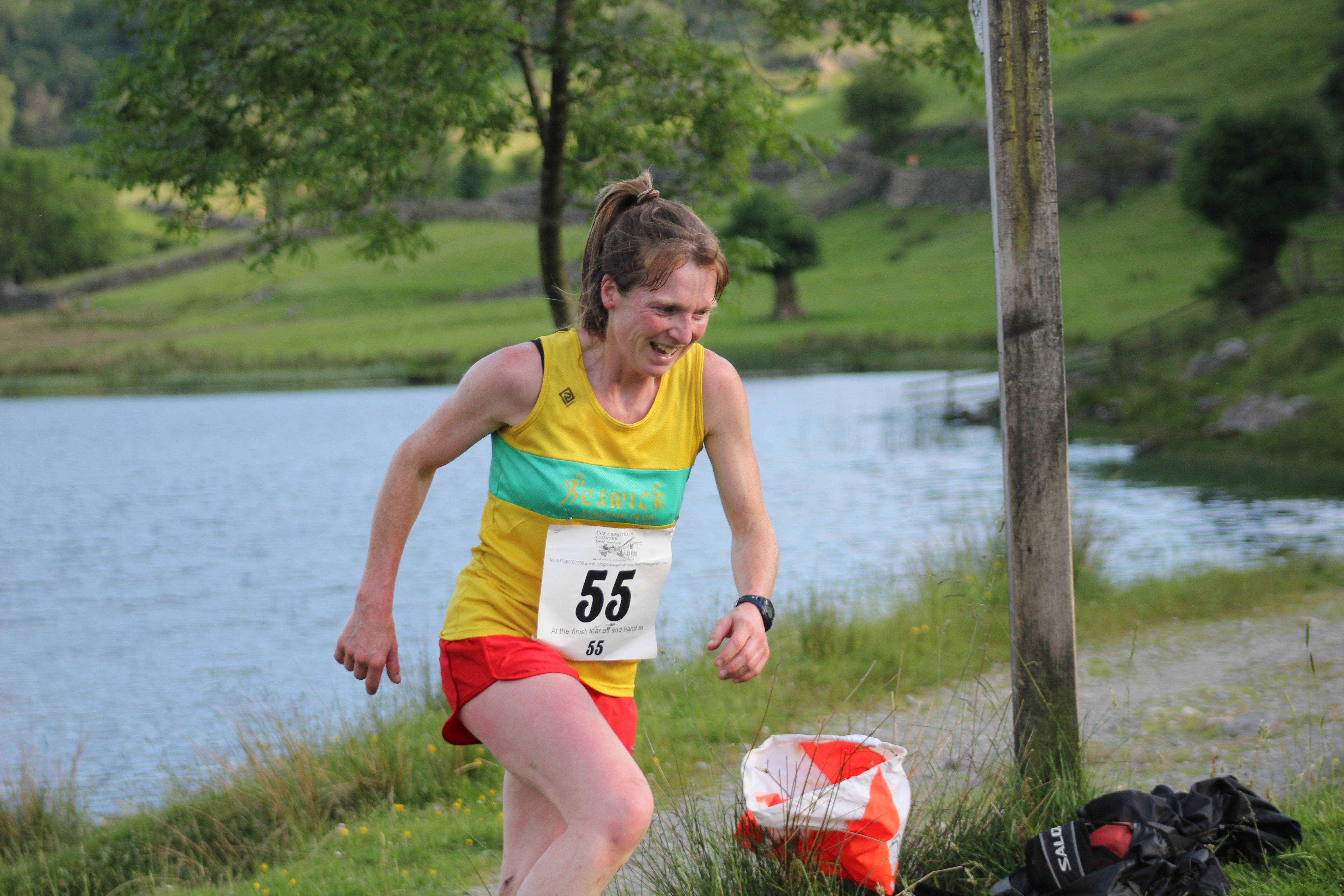 Pippa Maddams at 2014 Langstrath Fell Race